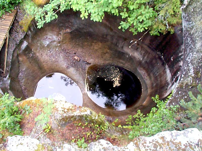 Giants kettle in Rovaniemi, Finland.